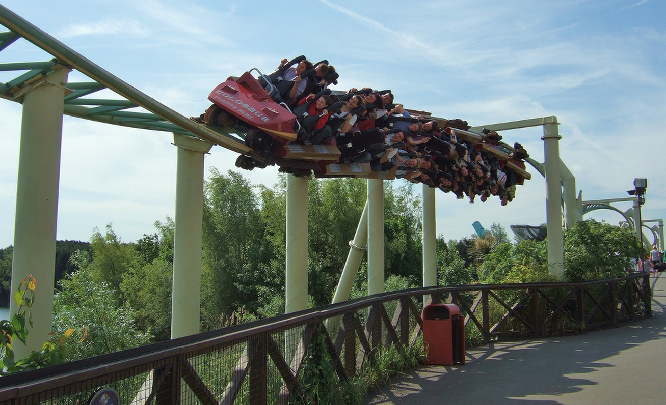 Colossus , a roller coaster at Thorpe Park, United Kingdom